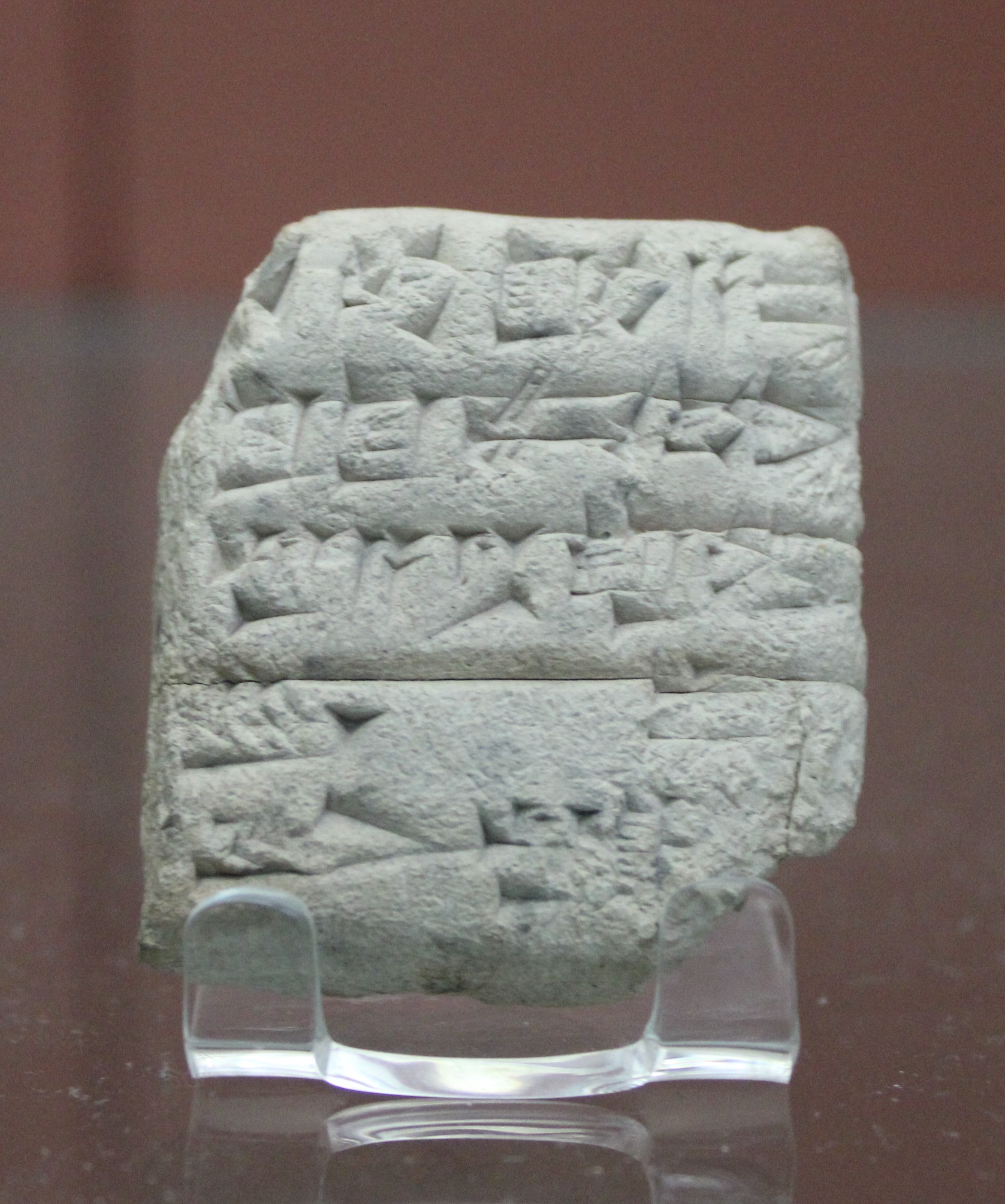 Receipt for garnments sent by boat to Dilmun (Bahrain). Third dynasty of Ur, 1st year of Ibbi-Sîn (2028 BC in middle chronology). From Ur. BM 130462.